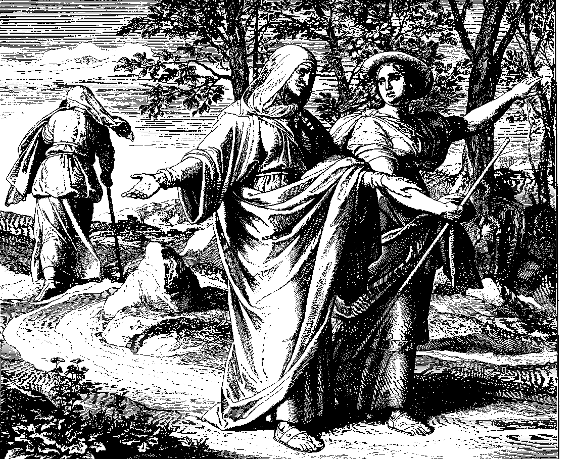 Woodcut for "Die Bibel in Bildern", 1860.